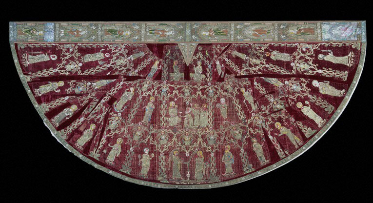 Cope, 1330-1350, V&A Museum no. T.36-1955 Techniques - Silk velvet, embroidered with silver and silver-gilt thread and coloured silks Place -England (embroidering), Italy (velvet, probably weaving) Dimensions - Width 165.5 cm (along top), Circumference 341 cm Source